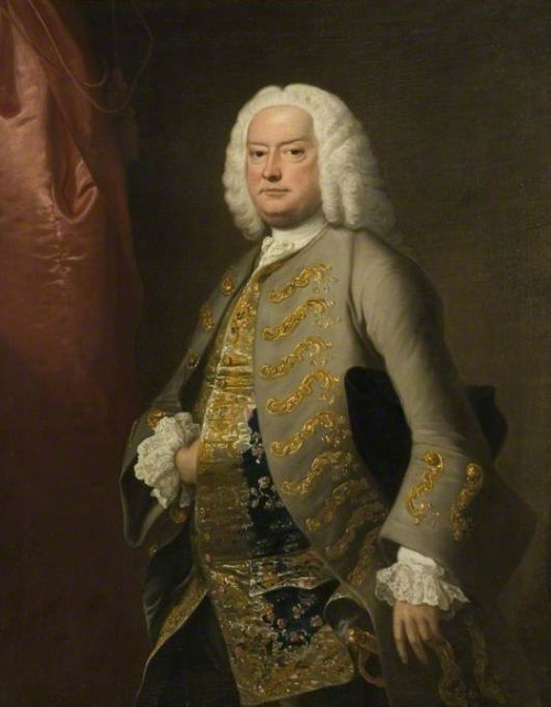 Sir Edmund Isham (1690-1772), 6th Baronet of Lamport by Thomas Hudson